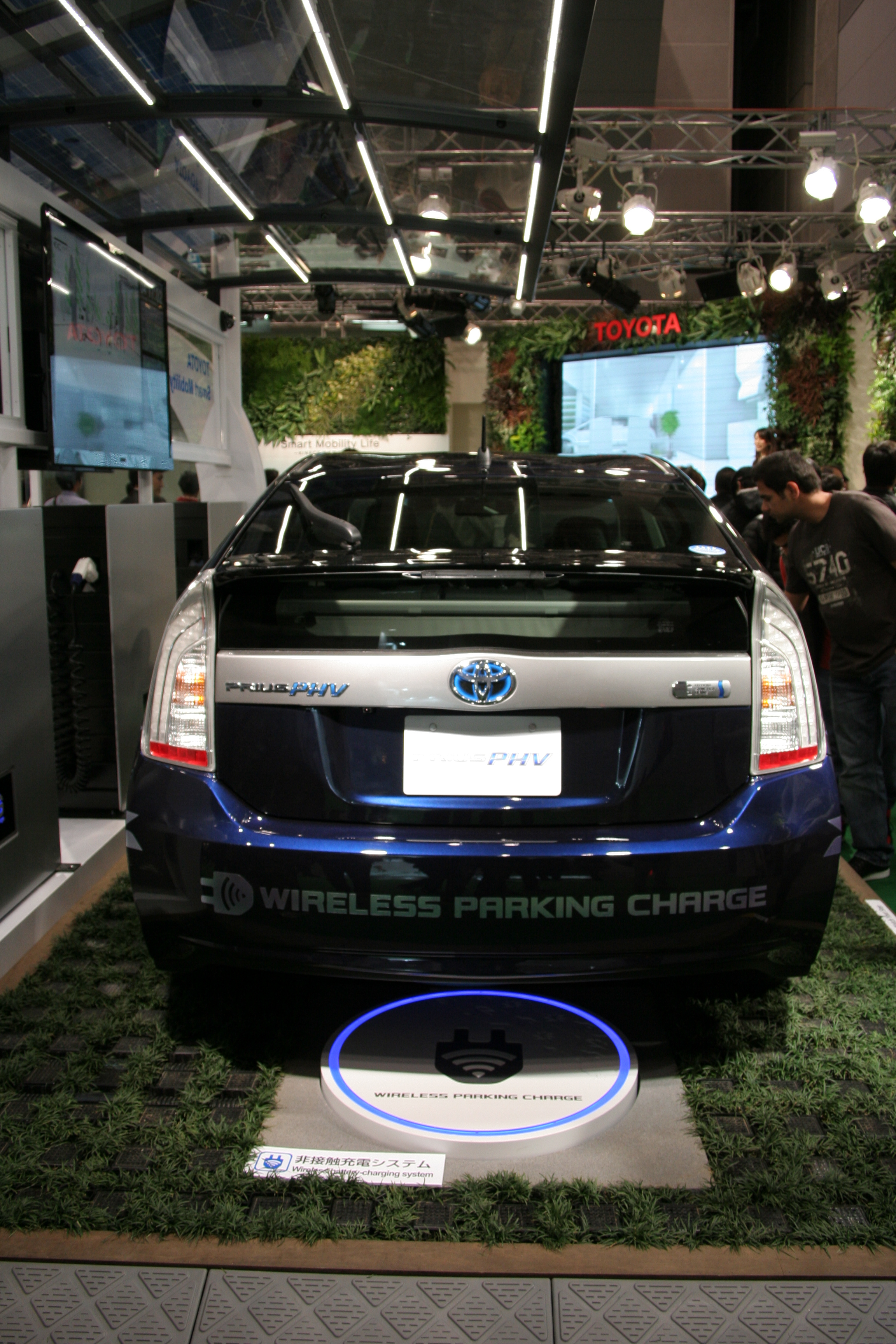 Demonstration of wireless charge during parking. In Tokyo Motor Show 2011